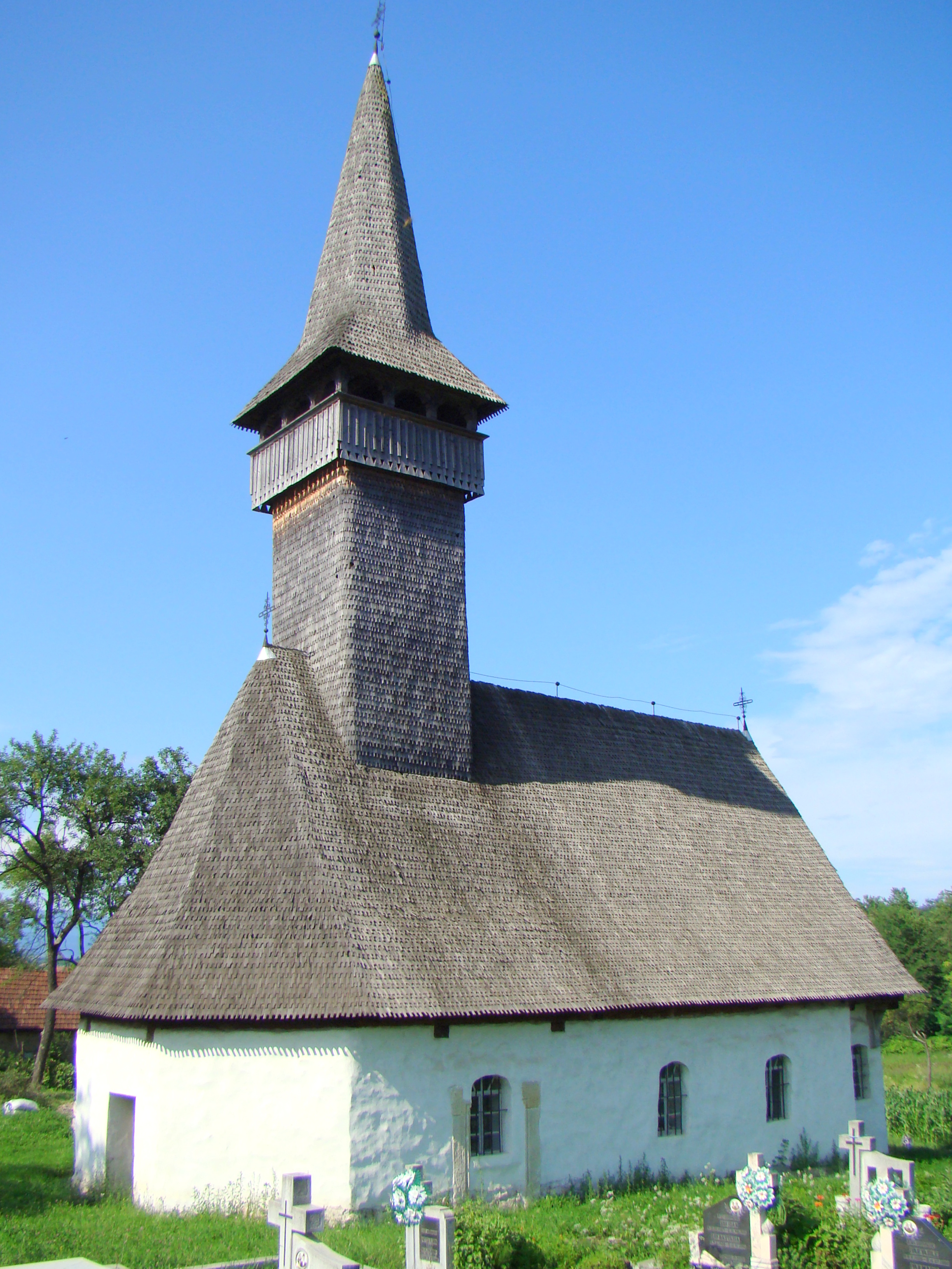 wooden orthodox church in Coaș, Maramureș County (built in 1730)